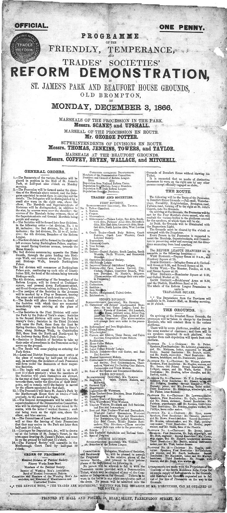 Programme of the Friendly, Temperance, and Trades' Societies' Reform Demonstration, held on December 3 1866, issued by the London Working Men's Association.